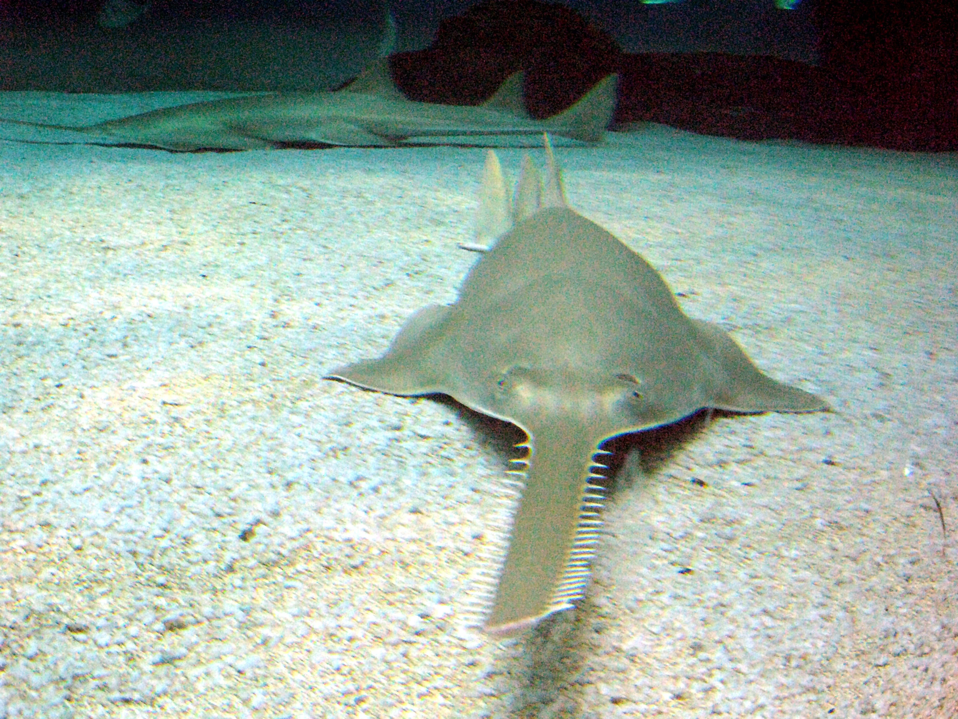 Green sawfish (Pristis zijsron) at the Genova Aquarium